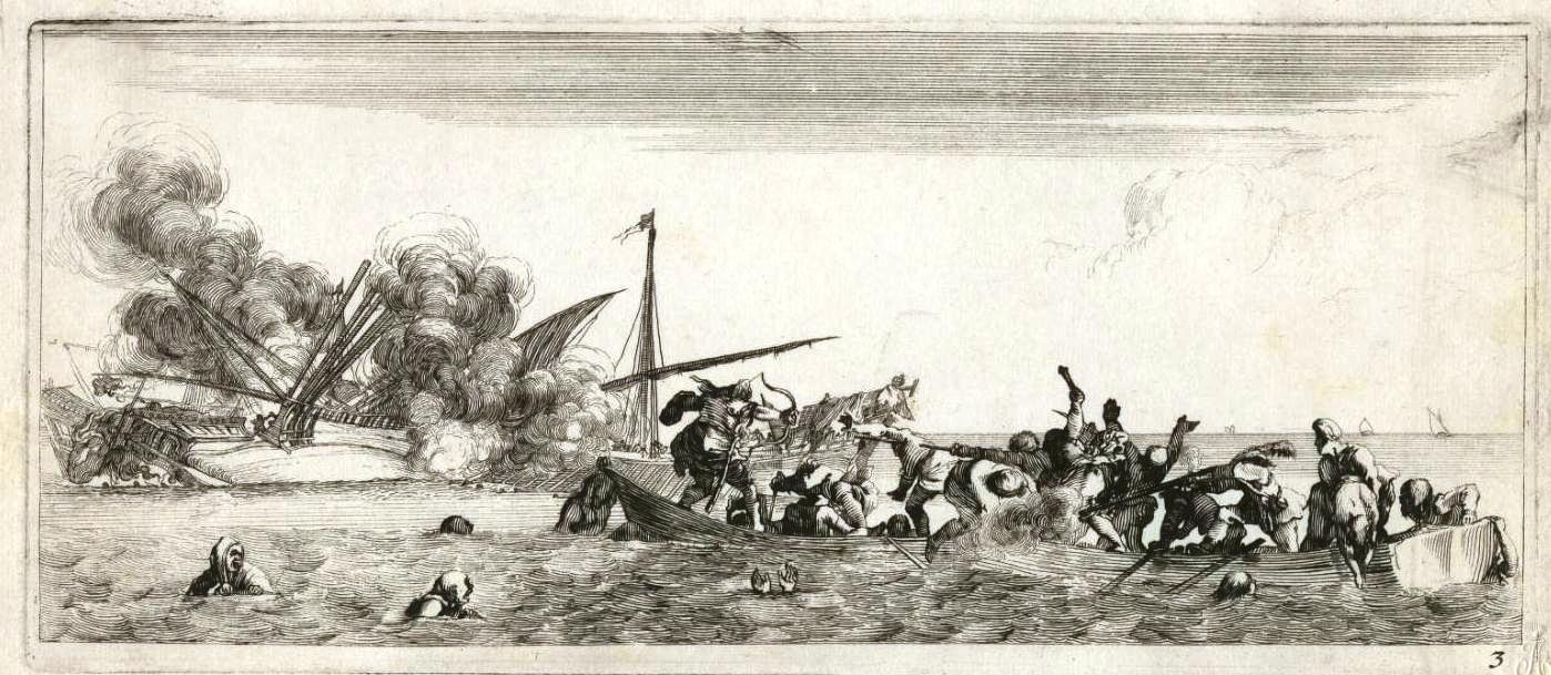 Battle of the galleys in the Mediterranean around 1640, perhaps against the Barbary pirates.